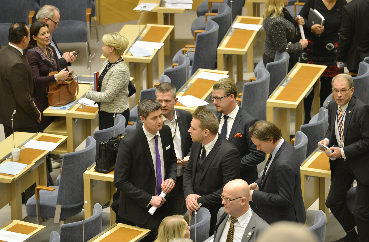 The government's budget fell. The Riksdag voted for the Alliance's proposal on 3 December 2014 with the numbers 182 against the 153 yes.